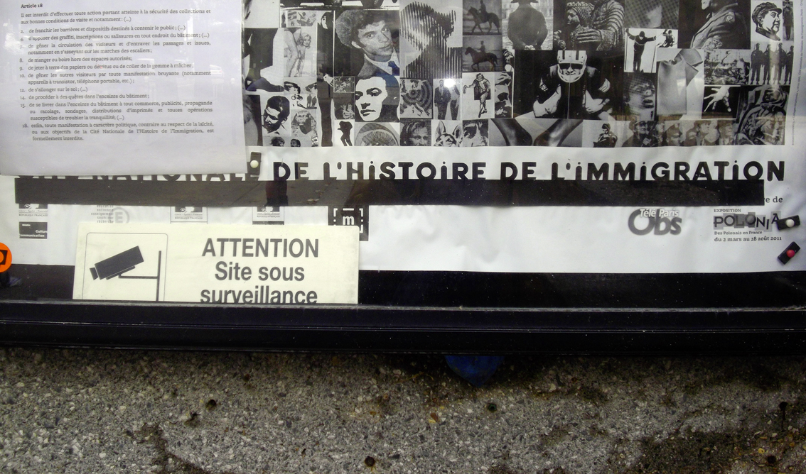 Cité nationale de l'histoire de l'immigration Paris, display entry, 22nd June 2011; 72dpi 40cm × 23,6cm.